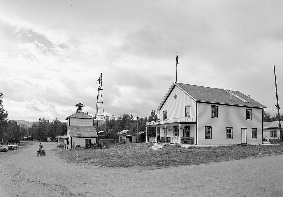 Front of the former federal courthouse in the city of Eagle in the Southeast Fairbanks Census Area of the U.S. state of Alaska, located on the southwestern corner of First and B Streets. Built in 1901, the courthouse is part of the Eagle Historic District, a National Historic Landmark District.